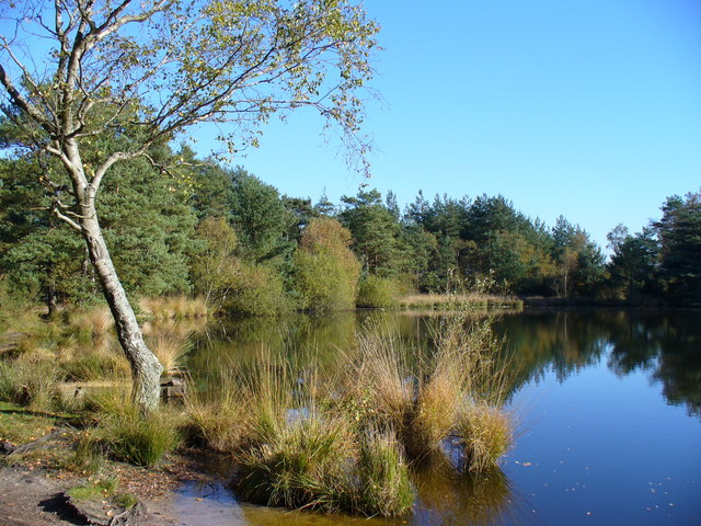 Autumn at The Moat The birch has shed most of its leaves but other deciduous trees around the pond are still mainly green. This is in Thursley Common Nature Reserve.